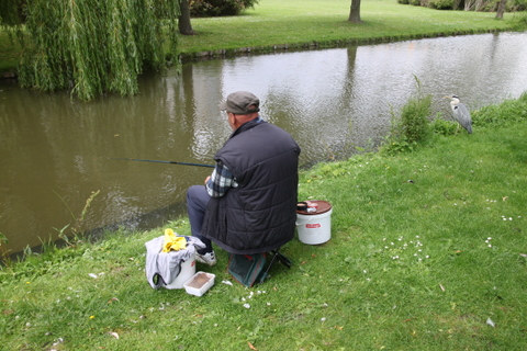 Angler with a Heron beside him they fish both the one for another sport for his bread in Holland